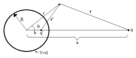 aplicação do método das imagens em uma esfera condutora aterrada de raio R